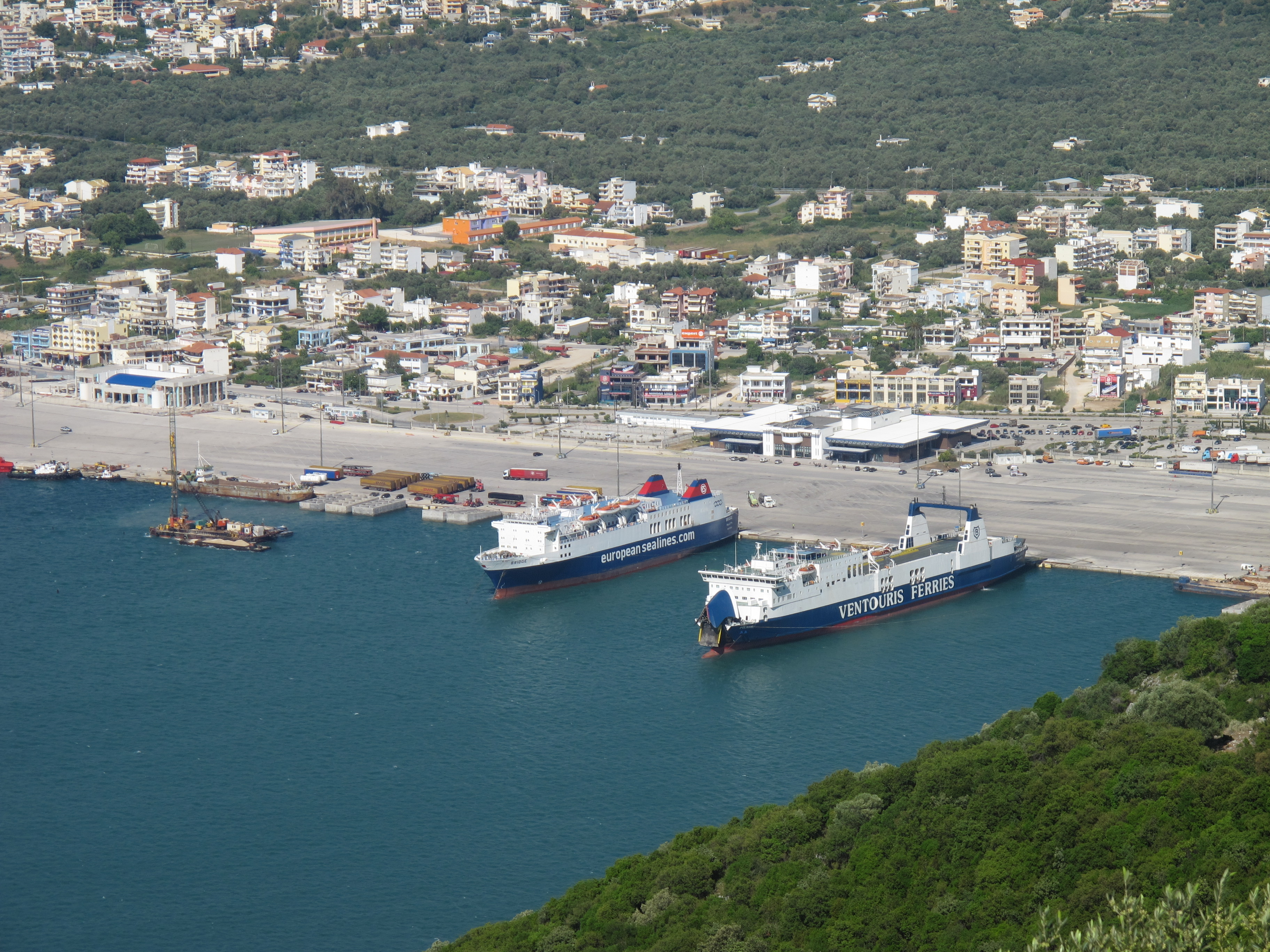 Ladohori Igoumenitsa New Port